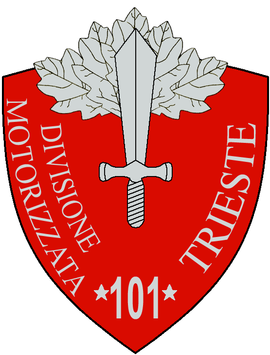 Coat of Arms of the WWII 101a Divisione Motorizzata Trieste of the Italian Regio Esercito